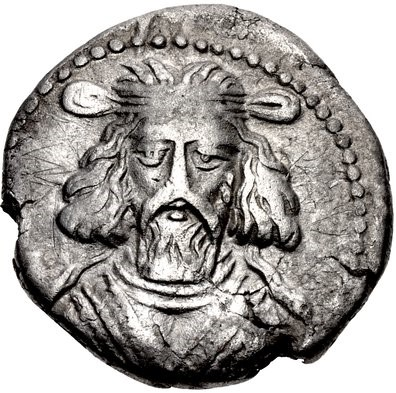 Coin of Artabanus II, minted at Seleucia in 27 AD.